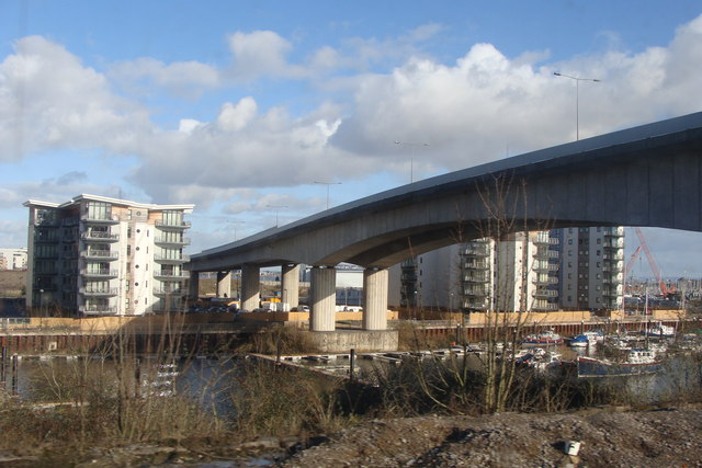 The A4055 road bridge over the River Ely